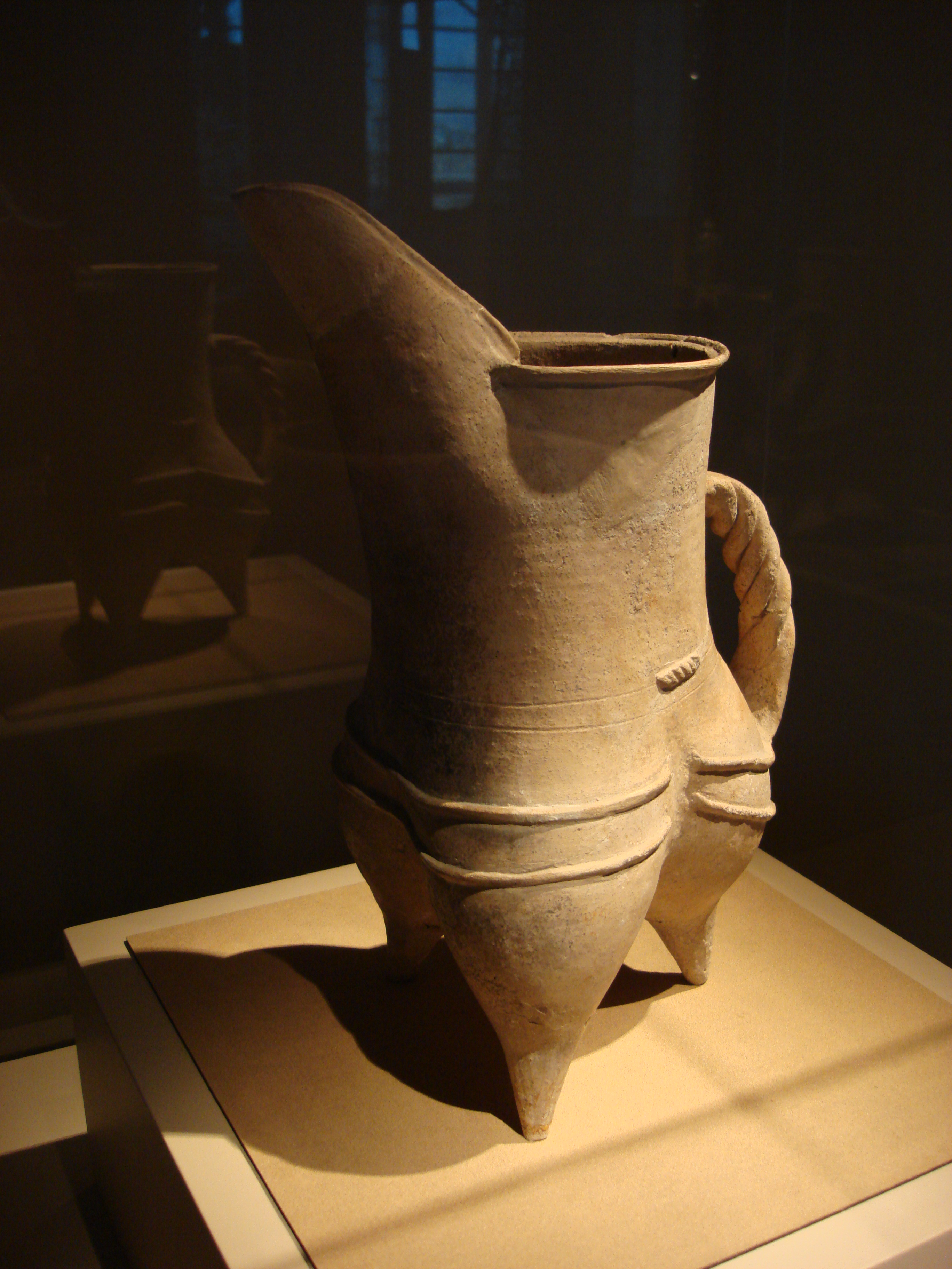 White Pottery Gui (pitcher) Shandong Longshan Culture Late Neolithic Period (ca. 2500 - 2000 B.C.) Excavated at Rizhao, Shandong Province "White pottery" is the name for a type of pottery which features a white body and surface. This pitcher was used for storing and boiling liquid, and its shape indicates that pottery making during the Late Neolithic Period was surprisingly skilled.